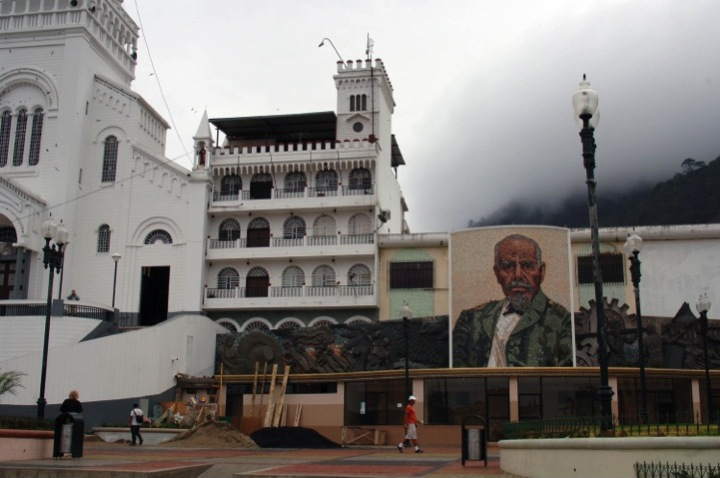 BAS-RELIEFS BESIDE THE CHURCH AND LARGE MOSAIC OF ELOY ALFARO, EARLY 20TH C. PRESIDENT OF ECUADOR. ELOY WAS FROM MONTECRISTI AND WAS ASSASSINATED. HIS HOME TOWN HAS HONORED HIM WITH A LARGE MOSAIC BESIDE THE CHURCH IN THE CENTRAL PLAZA AREA